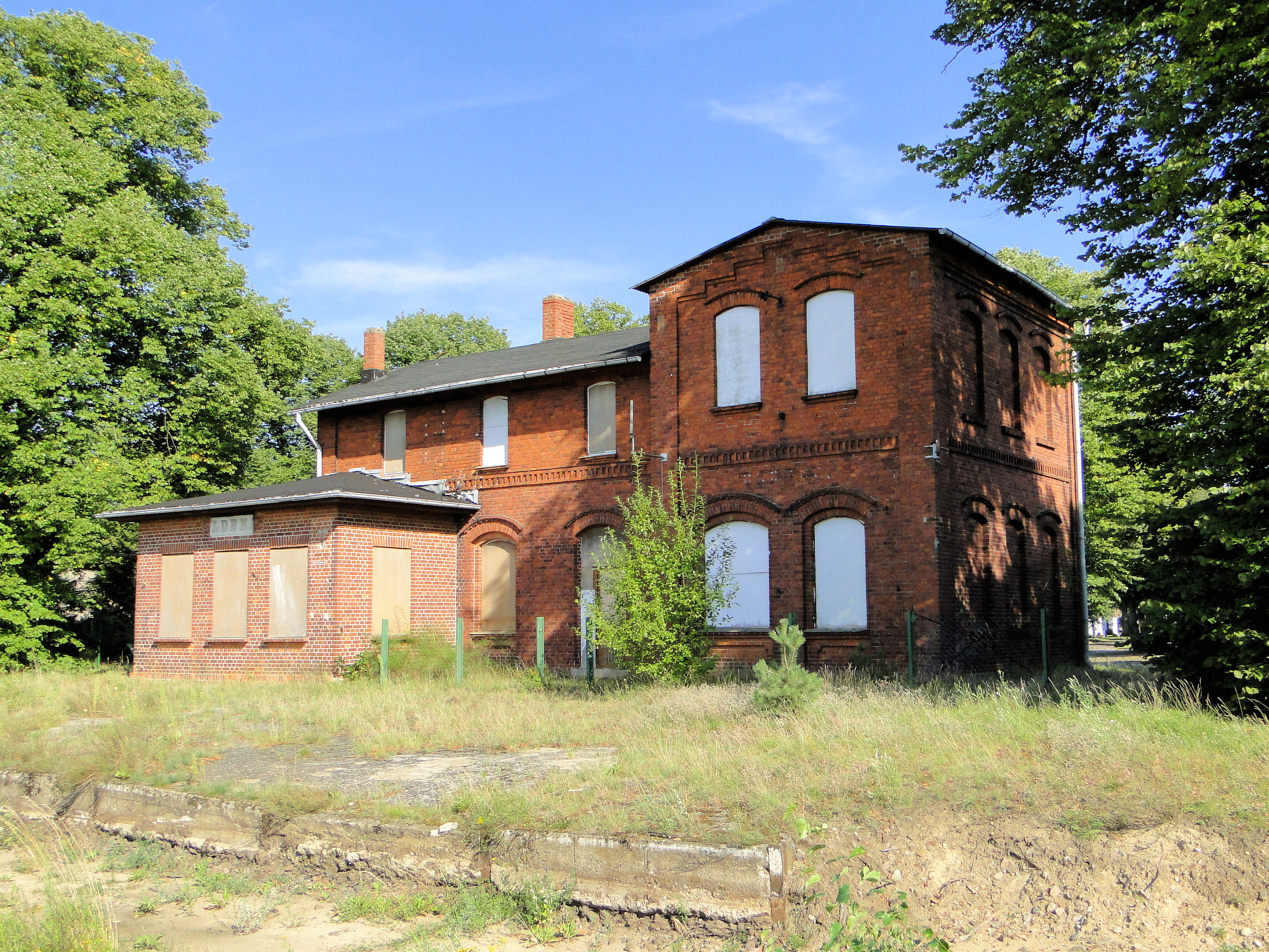 Former train station in Eldena, district Ludwigslust, Mecklenburg-Vorpommern, Germany